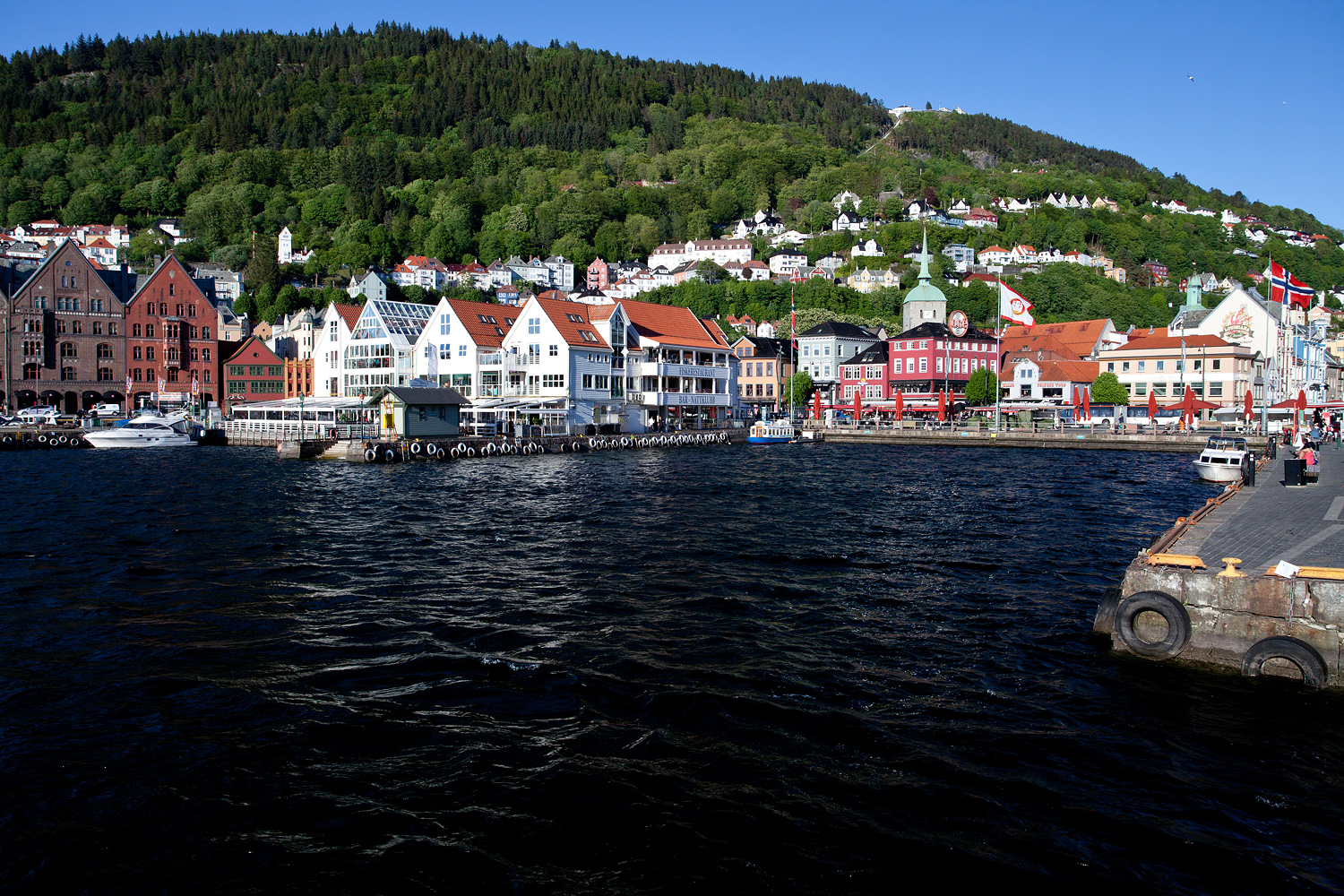 Bergen Harbour a beautiful day